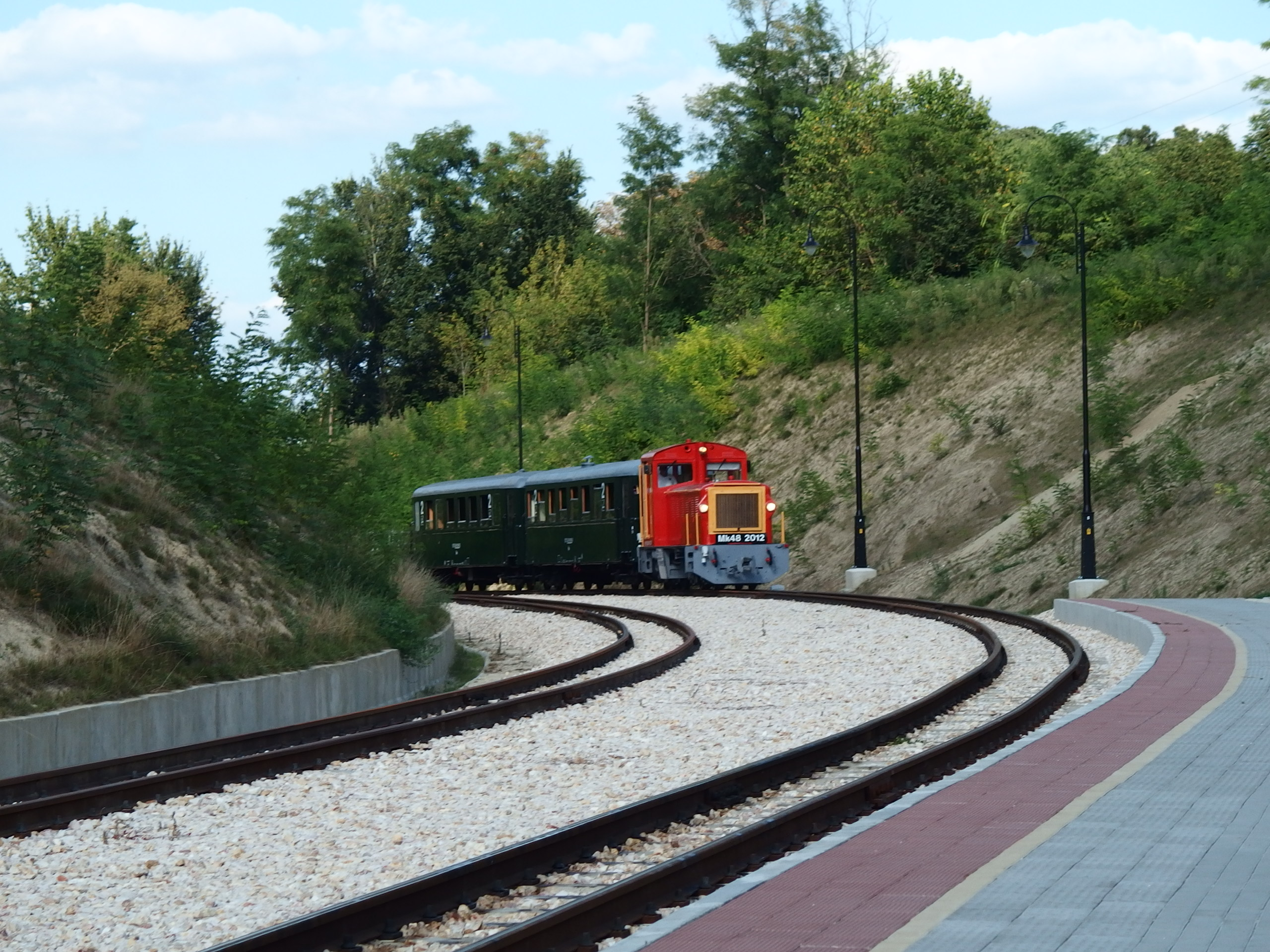 Light railway in Alcsút, Hungary